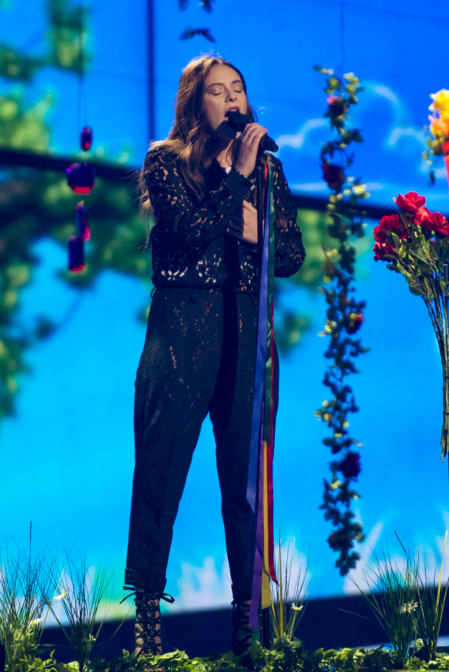 Francesca Michielin representing Italy with the song "No Degree Of Separation" during a rehearsal for "the Big Five" in the Eurovision Song Contest 2016 in Stockholm. (Help translate this text)